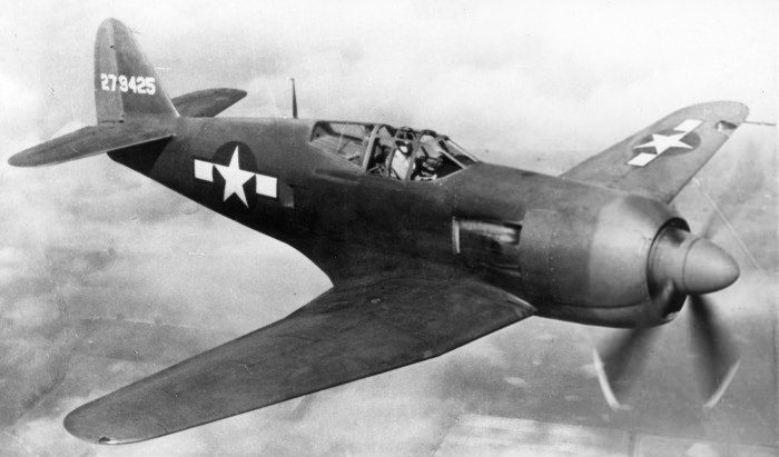 PictionID:47090407 - Catalog:16_008245 - Title:Curtiss XP-60C 42-79424 - Filename:16_008245.tif - Ray Wagner was Archivist at the San Diego Air and Space Museum for several years and is an author of several books on aviation --- ---Please Tag these images so that the information can be permanently stored with the digital file.---Repository: San Diego Air and Space Museum